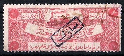 Revenue stamp (2pi) for financing the construction of Hejaz Railway in the Ottoman Empire. Listed as No. 17a in W. McDonald's Revenues of Ottoman Empire and Republic of Turkey. See also Ottoman Turkish Empire Revenue Stamps of the Hejaz Railway by Steve Jaques, Troy, 2009, pp.22 Catalogue: Sul. 5262, McDonald 17a